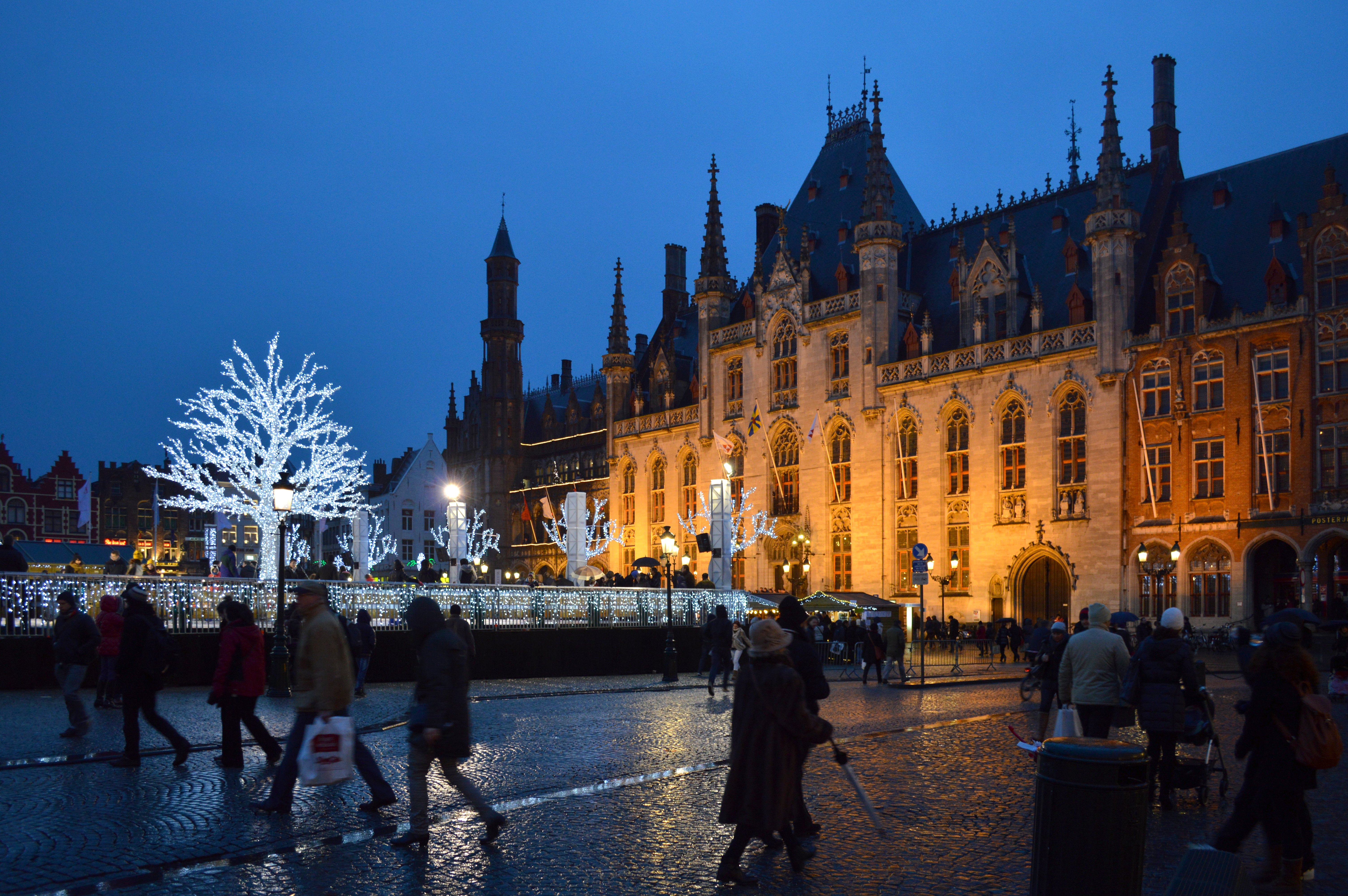 View of the Provinciaal Hof and the ice rink on the Grote Markt in Bruges, Belgium, during the 2013 Christmas market.